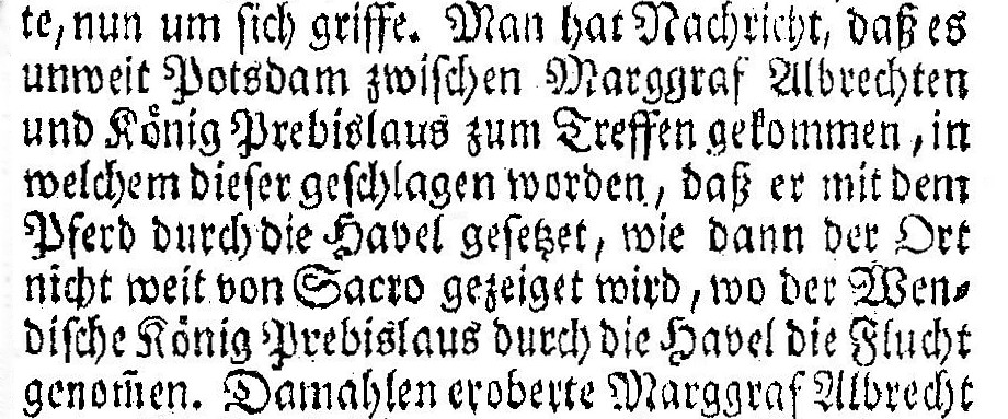 Jacob Paul von Gundling, part from page 21 of his work: Leben und Thaten des durchlauchtigsten Fürsten und Herrn, Herrn Albrechten des Ersten, Markgrafen zur Brandenburg aus dem Hause Ascharien und Ballenstädt. In print by Christian Albrecht Gäbert, Berlin 1730. This part is the first known representation of the Schildhorn-Legend.